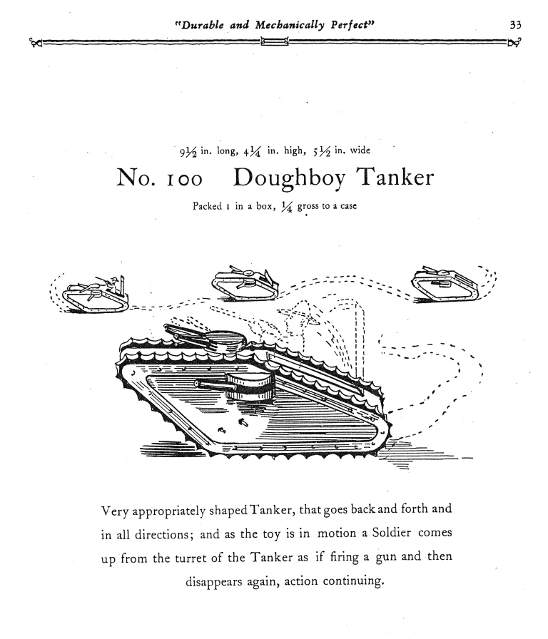 See filedescription and metadata of page 1.